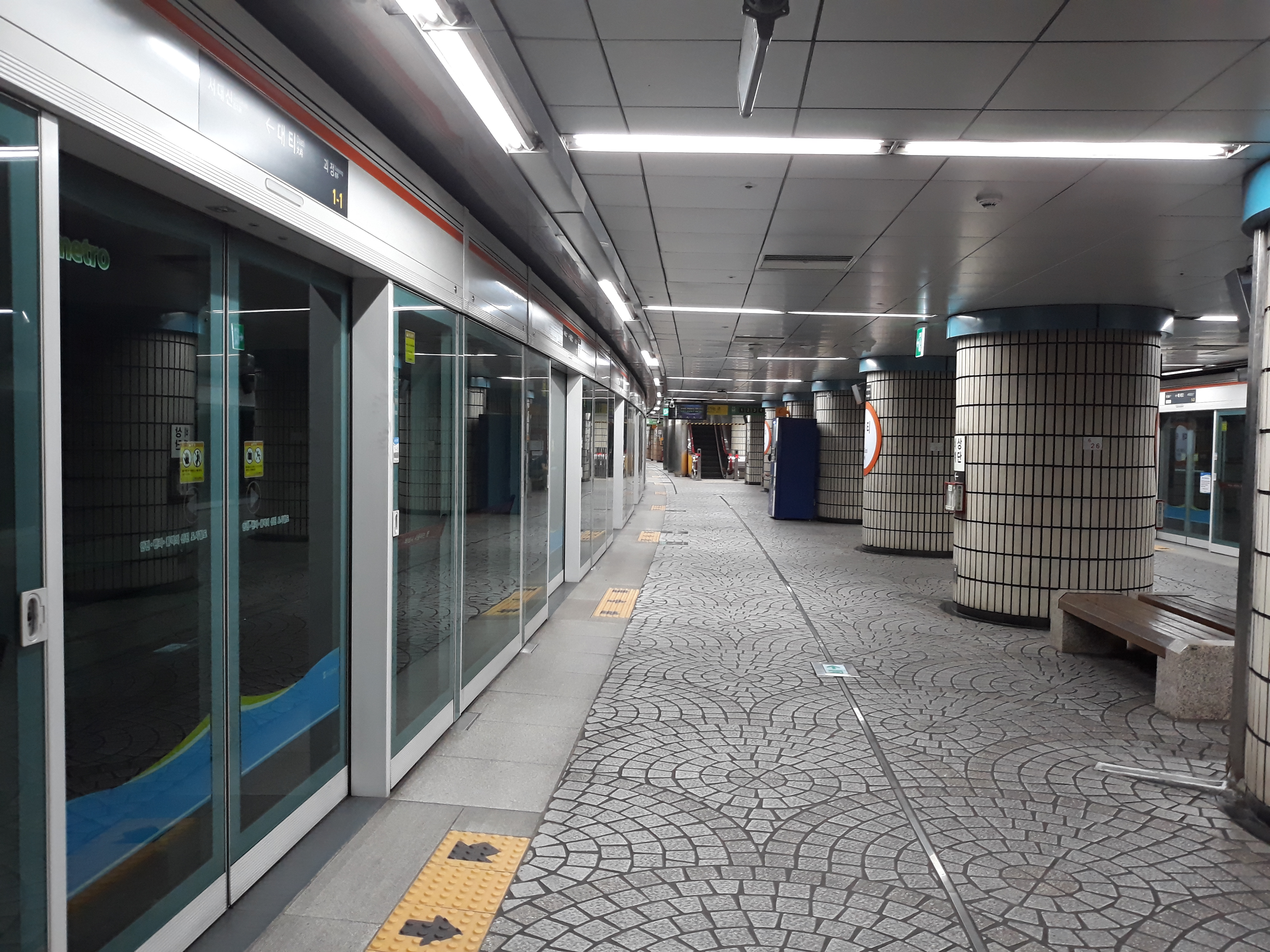 The platform at Daeti station on the Busan metro line 1